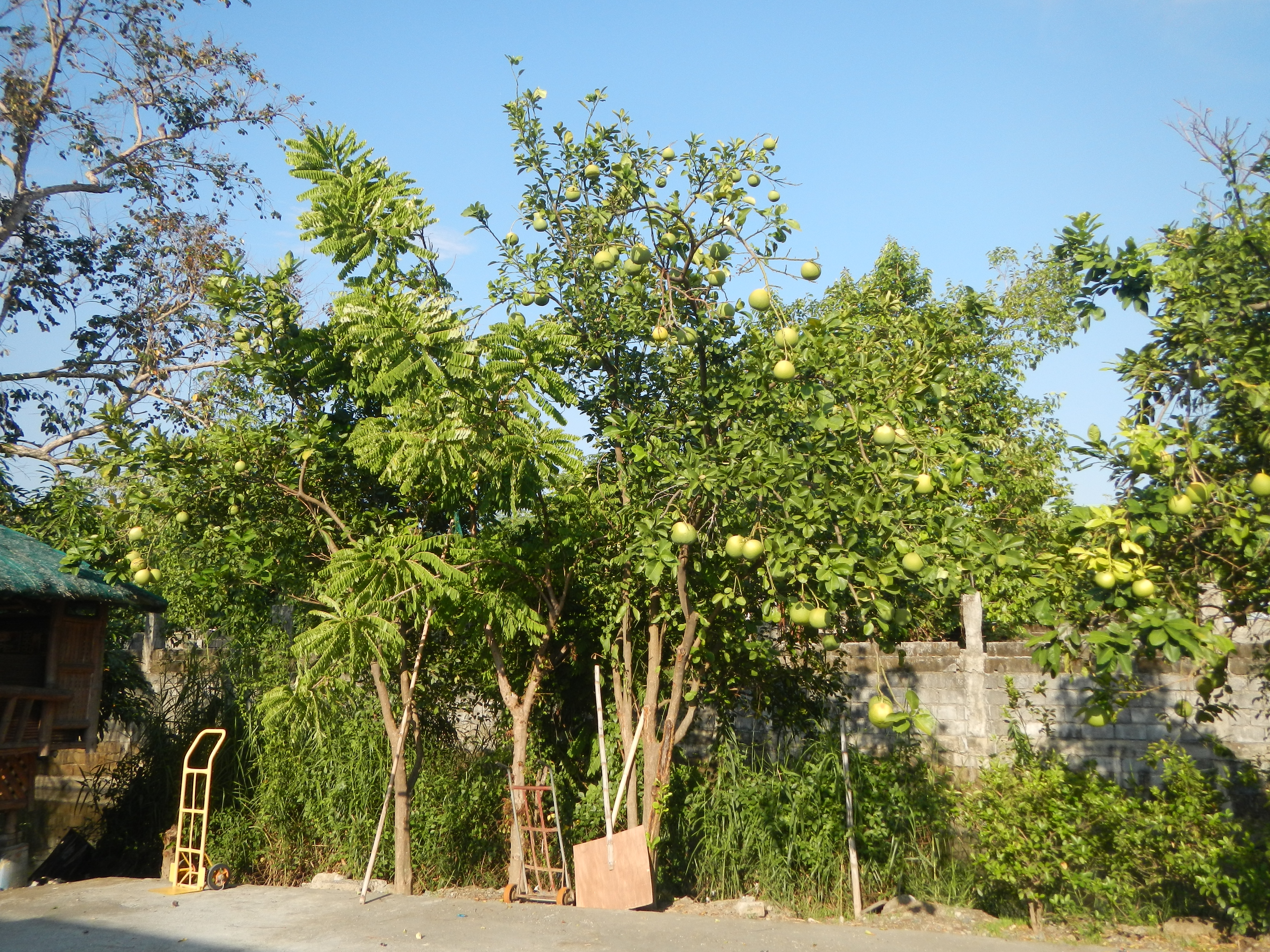 Pomelo Citrus maxima or Citrus grandis in Barangay Del Pilar, Zaragoza, Nueva Ecija - Santa Rosa-Tarlac Road.